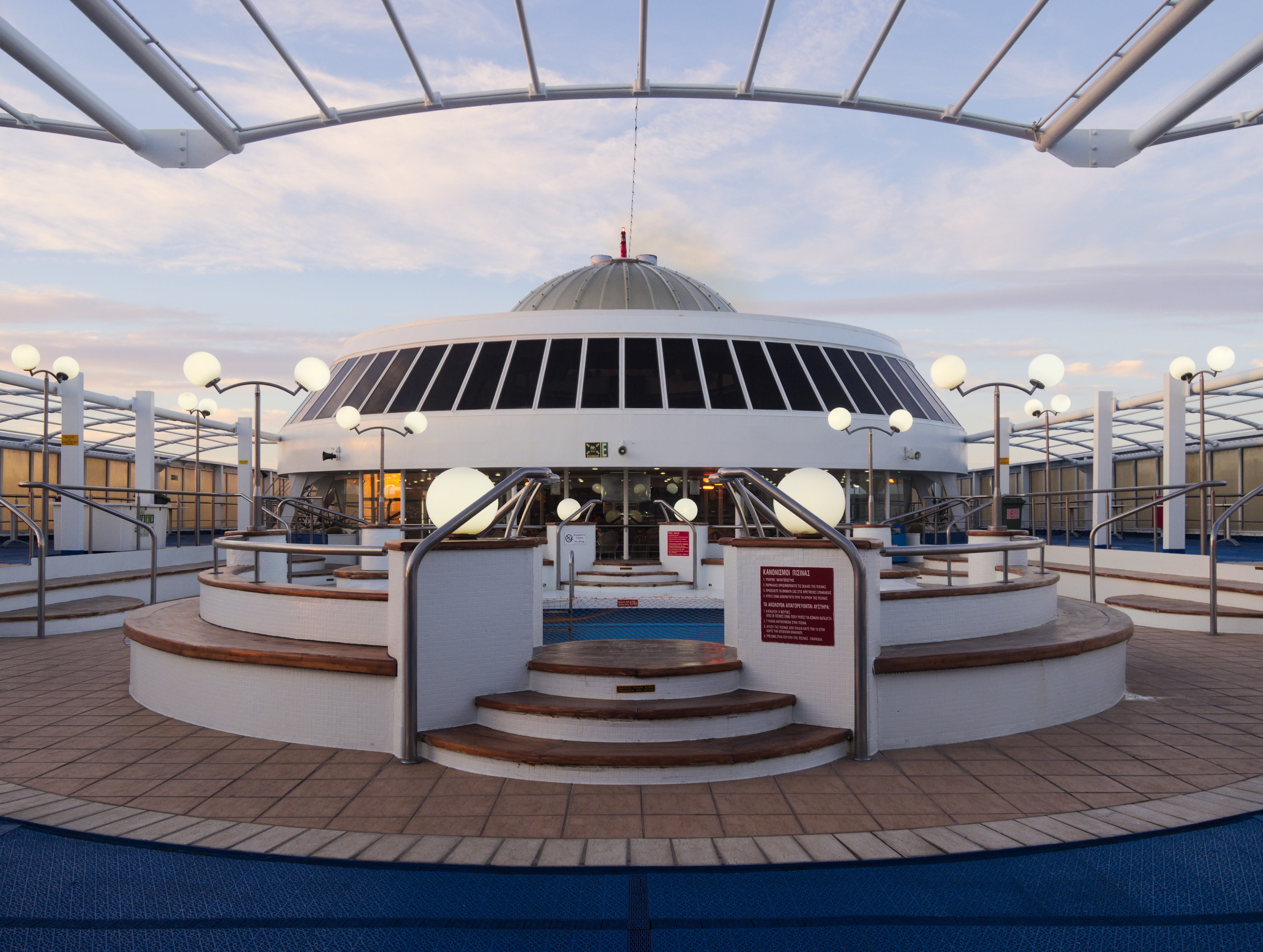 The pool bar area of Festos Palace ship.